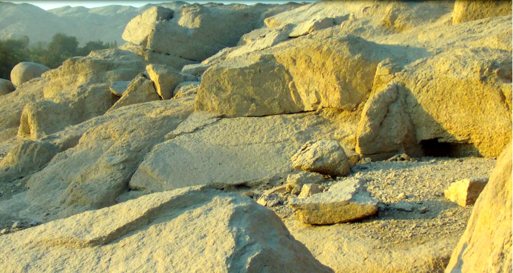 Zona Arqueologica de Moxeque Mojeque MOxeque Ancash Peru